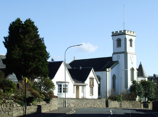 The Old Kirk, Kilmacolm's (Church of Scotland) parish church. Also visible on the left is the church hall, known as the Kidston Hall. Taken from here. Photograph by Thomas Nugent.